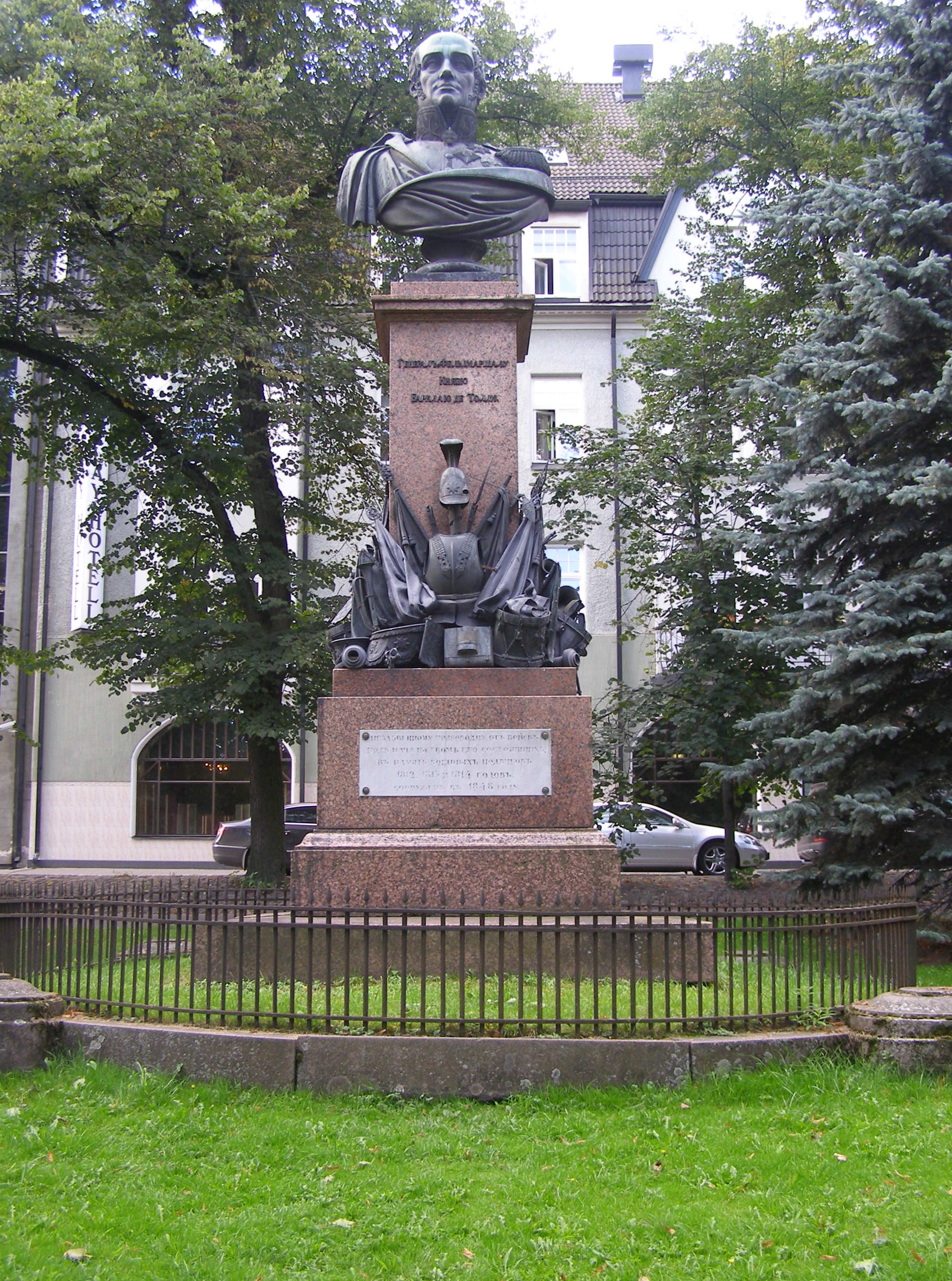 Bust of the Michael Andreas Barclay de Tolly in Tartu, Estonia